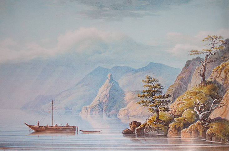 Baikal lake. Little Belfry cliff in the Sandy Bay